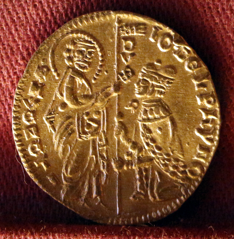 Coins of Venice in the Museo Correr (Venice)